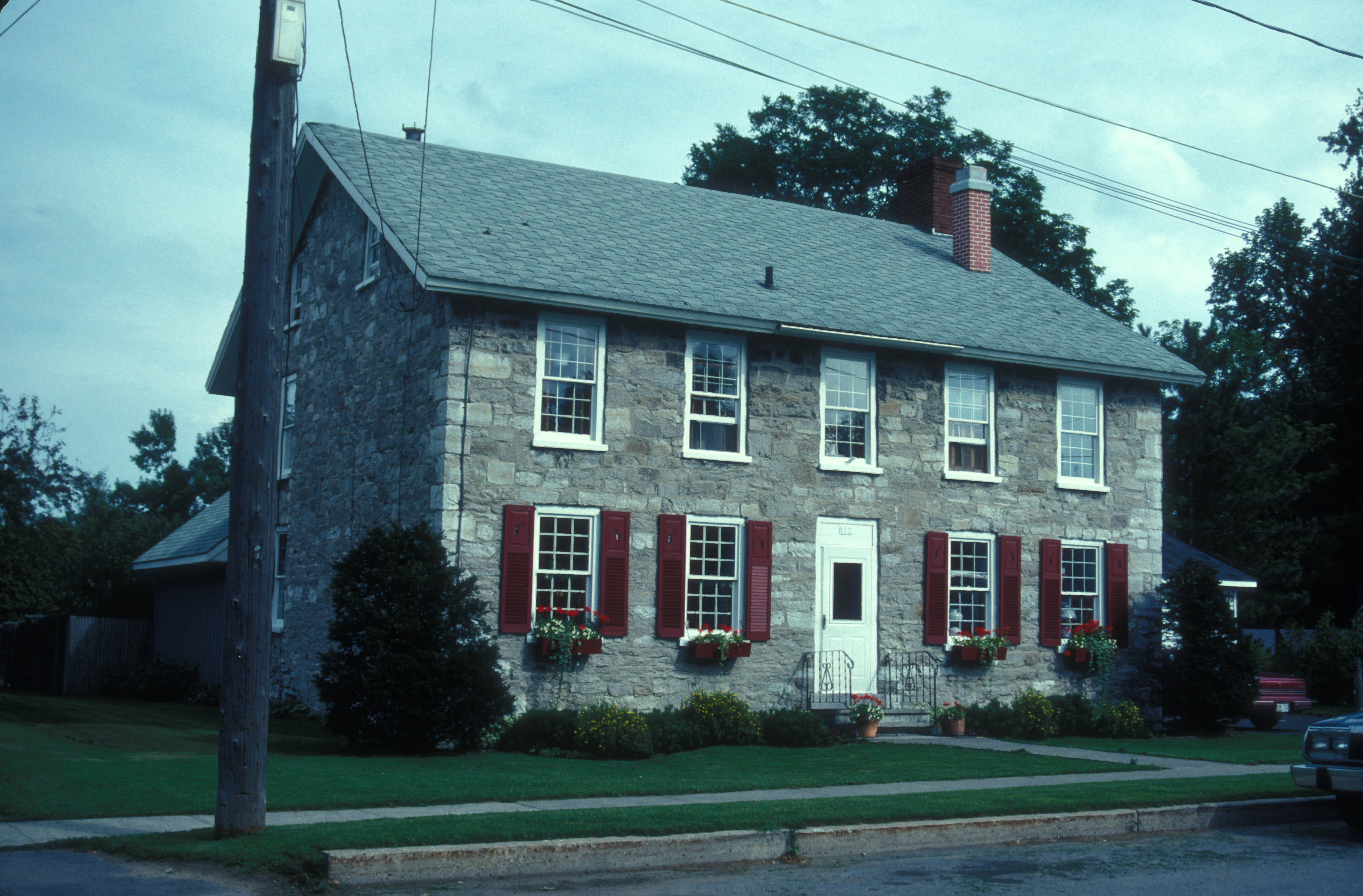 HOME NOTED FOR ITS ARTISTIC USE OF STONE